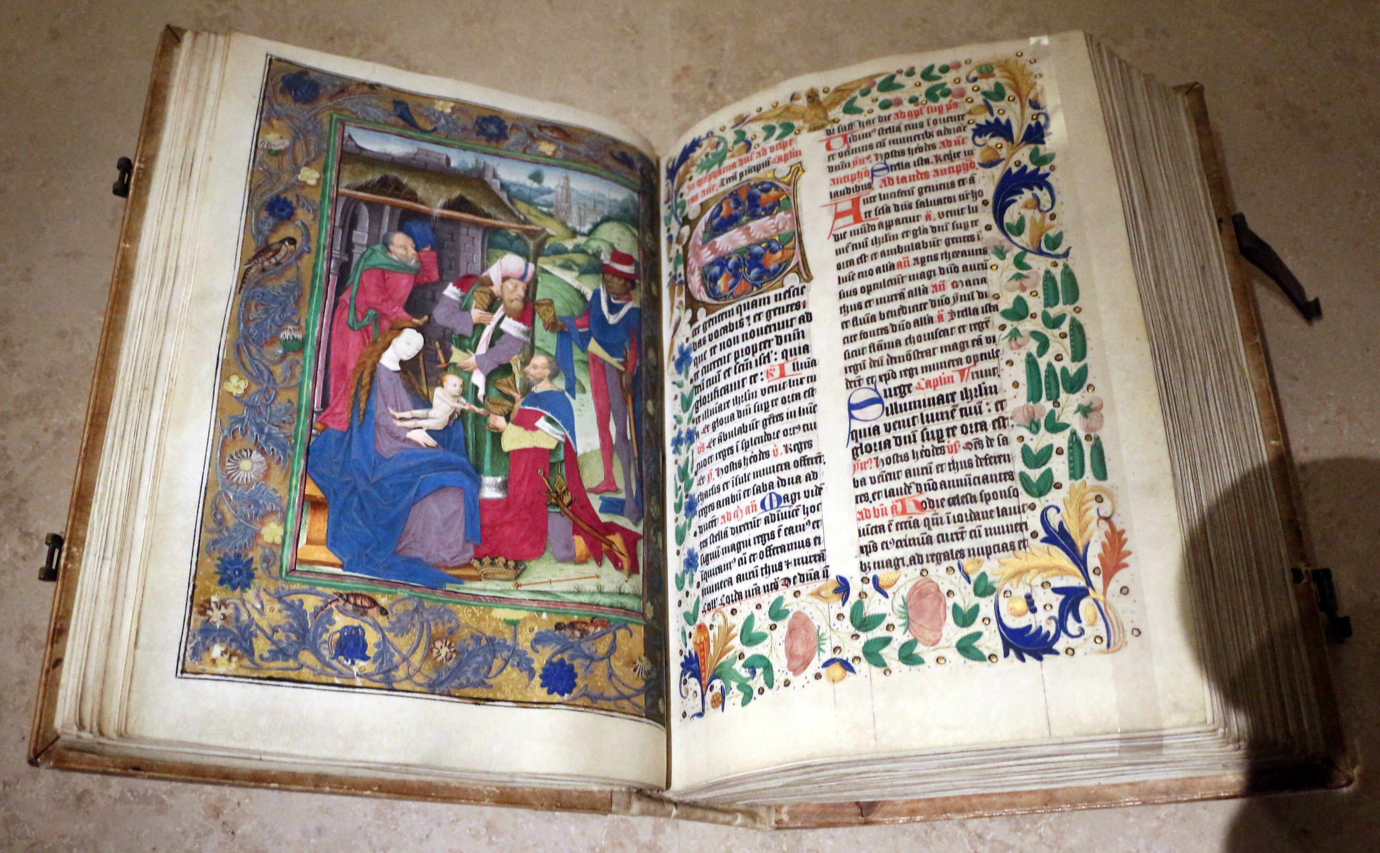 Books in the Museum Catharijneconvent